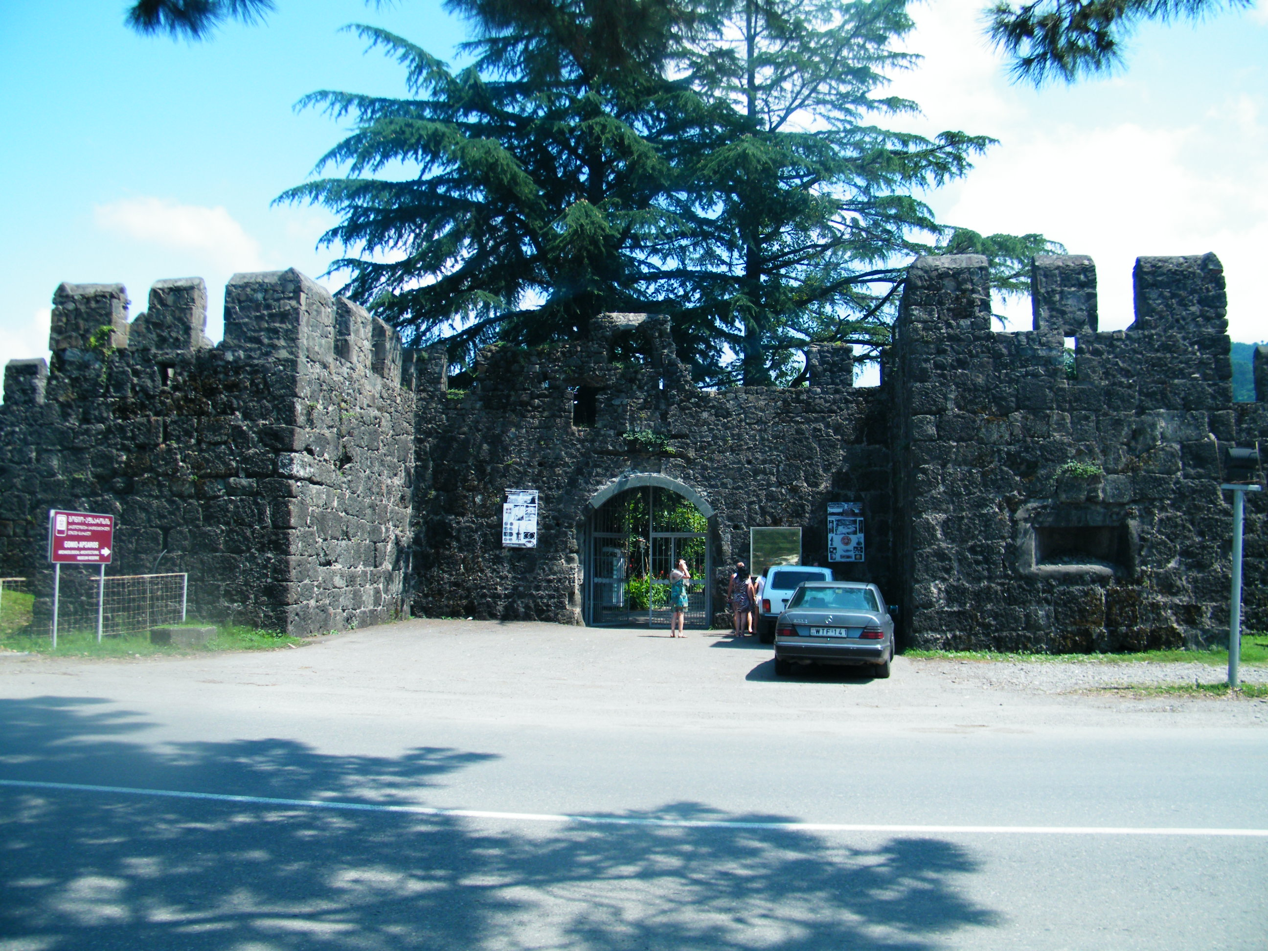 The gate of the Gonio castle